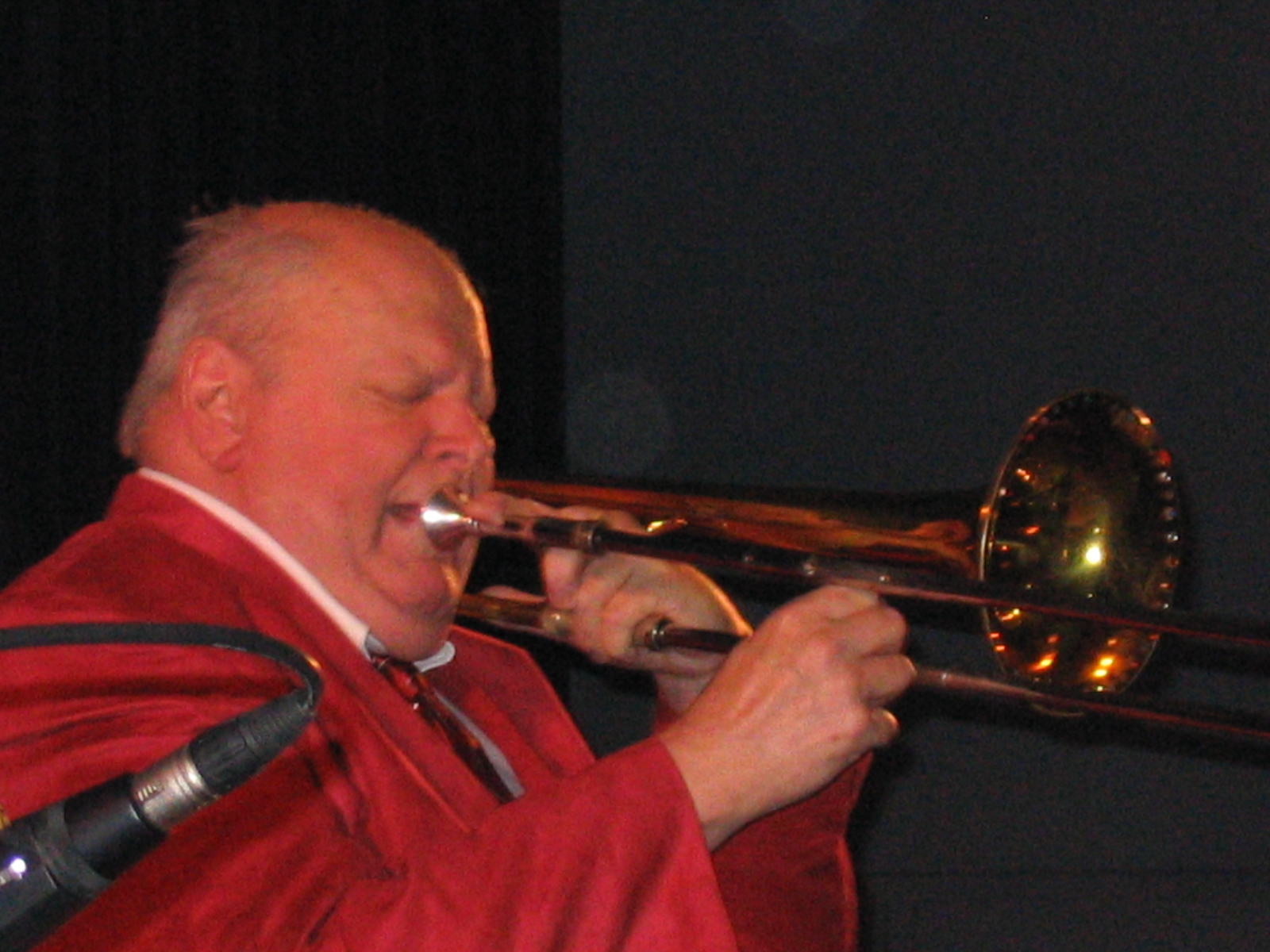 big bill Lyon France 2003